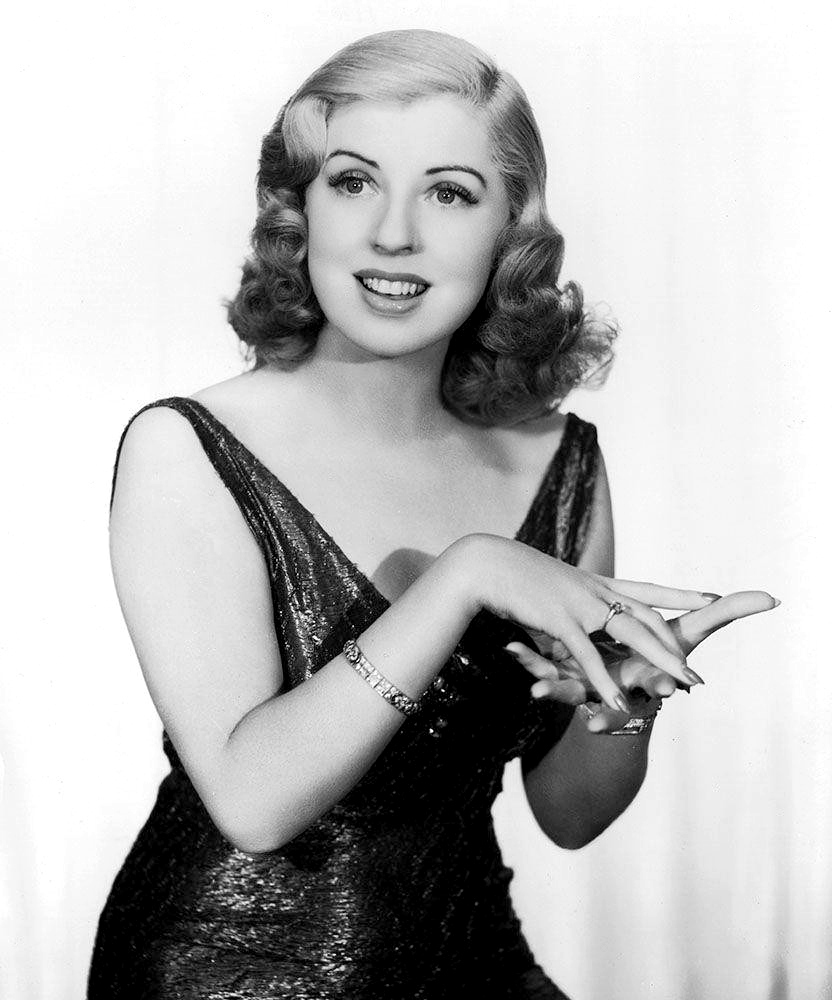 Publicity photo of Dennie Moore.